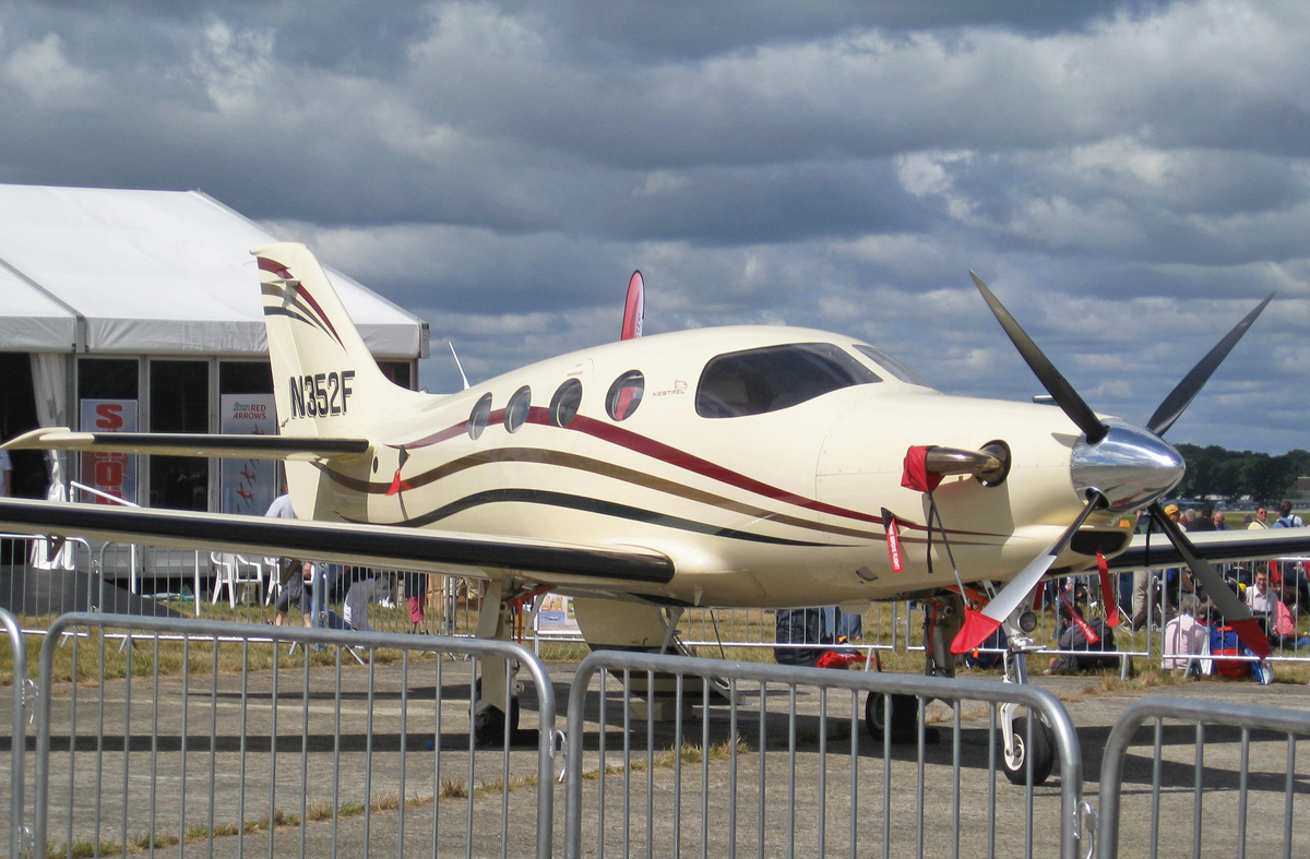 Kestrel K-350 Prototype aircraft N352F No. 0001 displayed at the 2008 Farnborough International Air Show. The aircraft was then still known as the Farnborough Aircraft Kestrel F1.